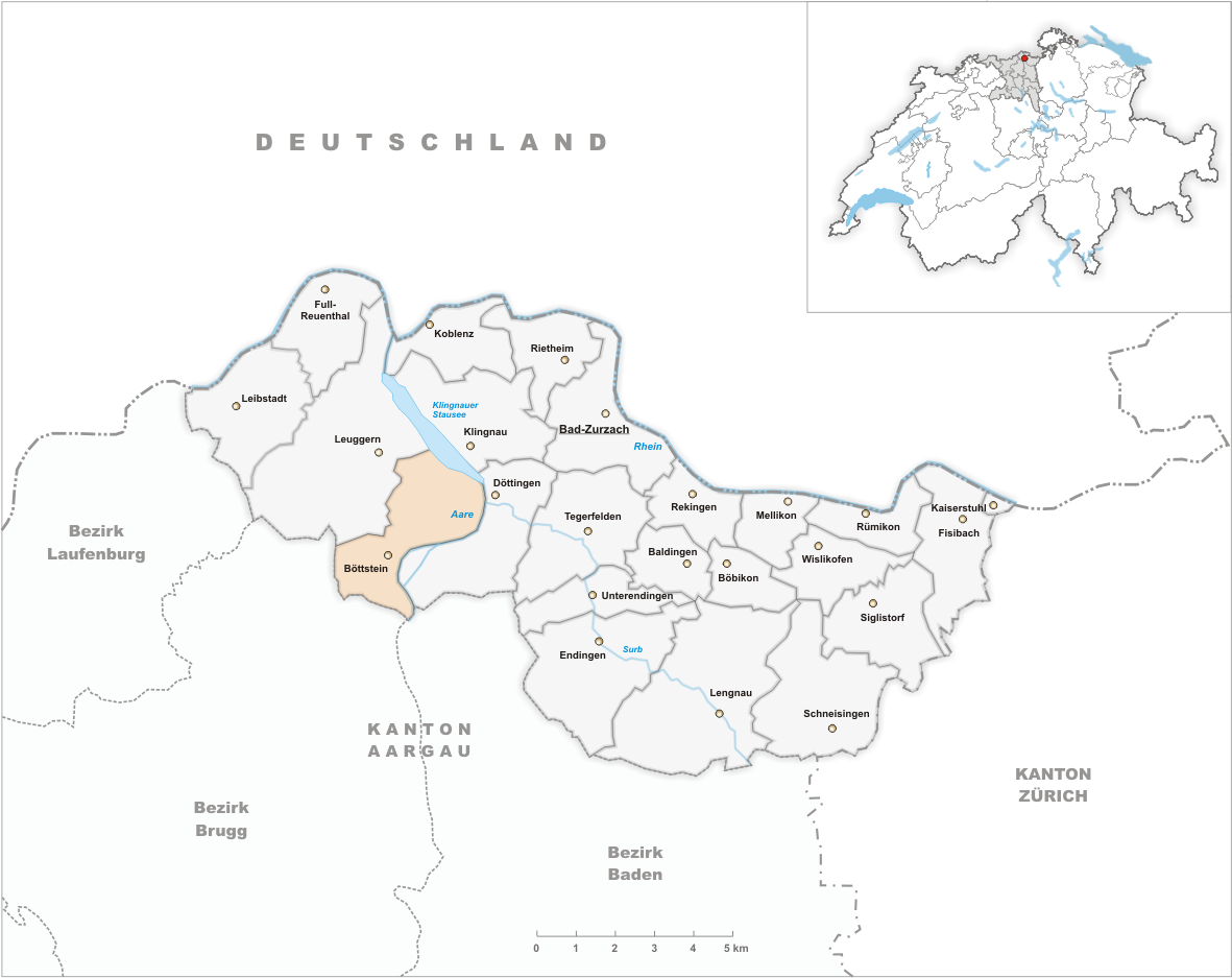 Municipality Böttstein